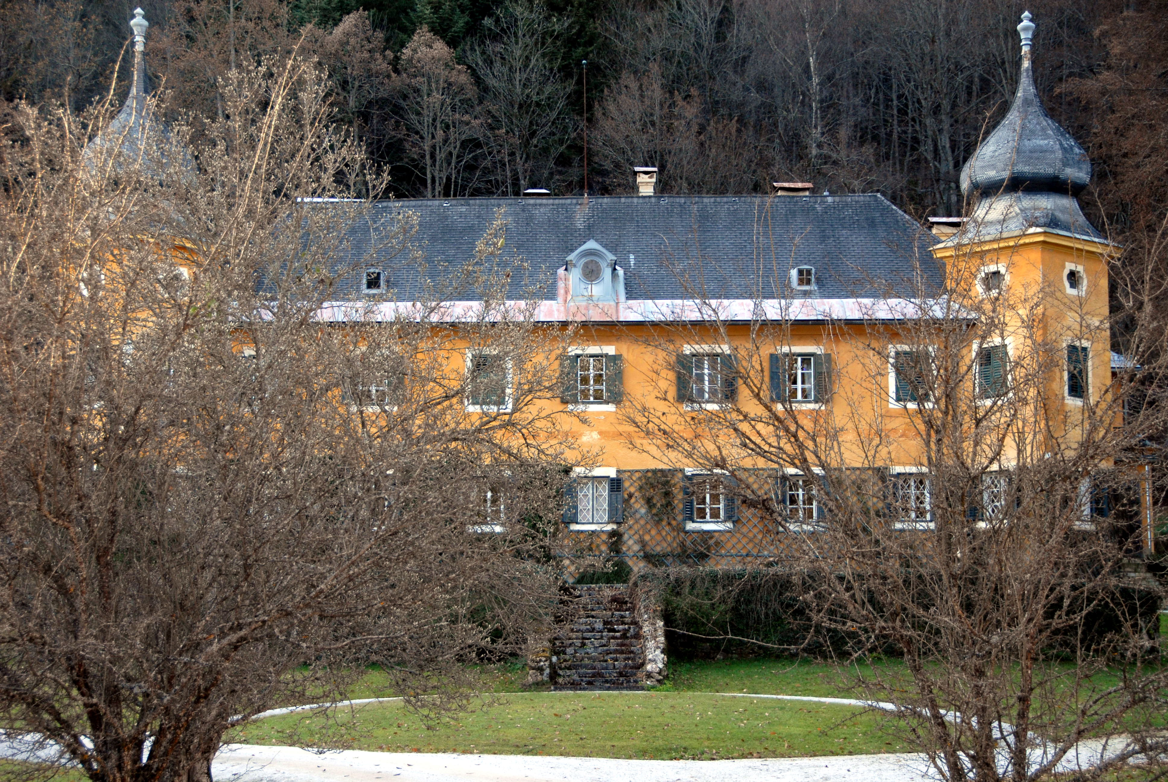 Castle Hagenegg in Vellach #1, municipality Eisenkappel-Vellach, district Voelkermarkt, Carinthia / Austria / EU